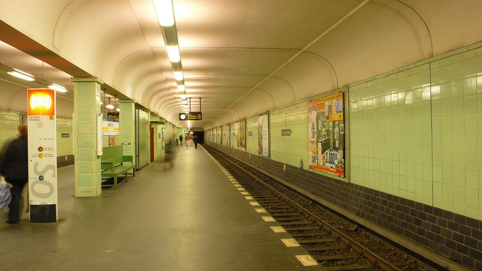 Subway Leinestr Berlin